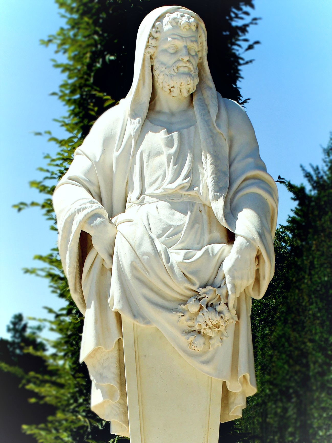 Theophrastus